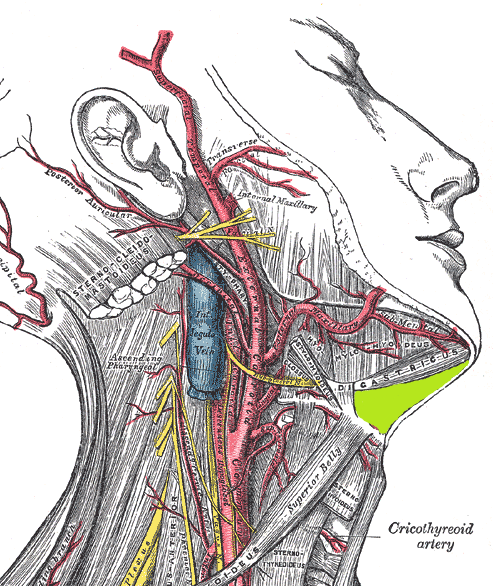 Edit of Gray507.png cropped and highlighted in green the area of the submental space.